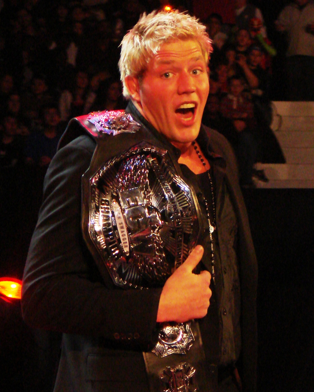 Jack Swagger at an ECW Taping. Allstate Arena; Rosemont, IL. Taken by myself, rotated, cropped, brightened.